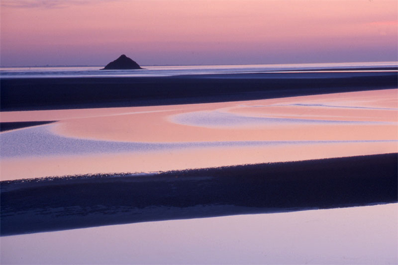 Tombelaine, a small island close to the Mont Saint Michel (Normandy, France). Photography by Jide, 2002.